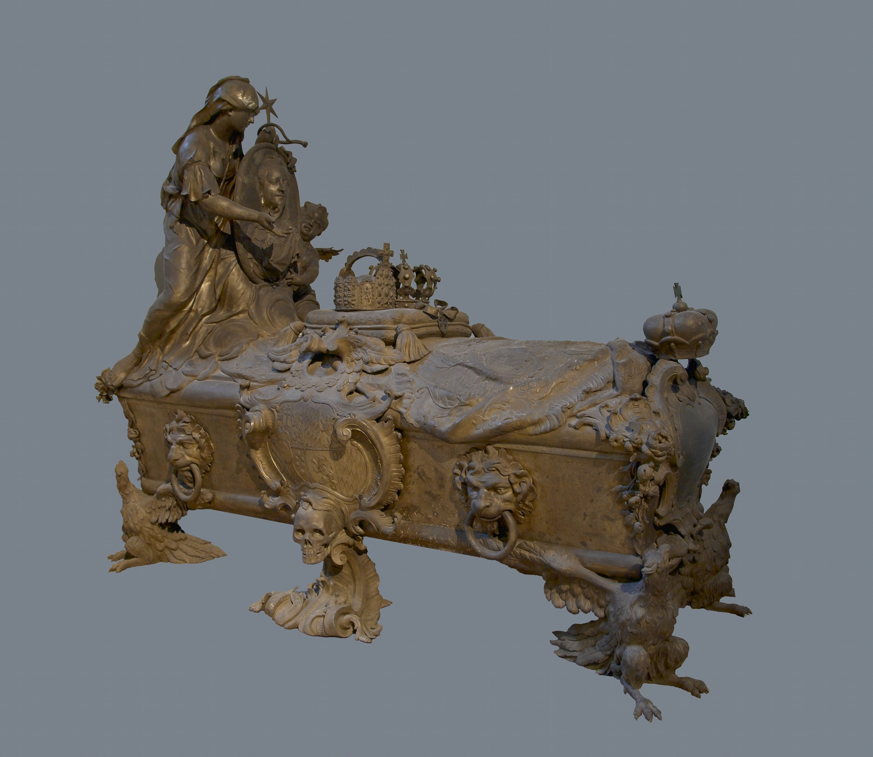 Sarcophagus of Empress Maria Josepha of Bavaria (1739-1767), second wife of Emperor Joseph II, Holy Roman Emperor. Died of smallpox. Kaisergruft (Imperial Crypt), Vienna, Austria.